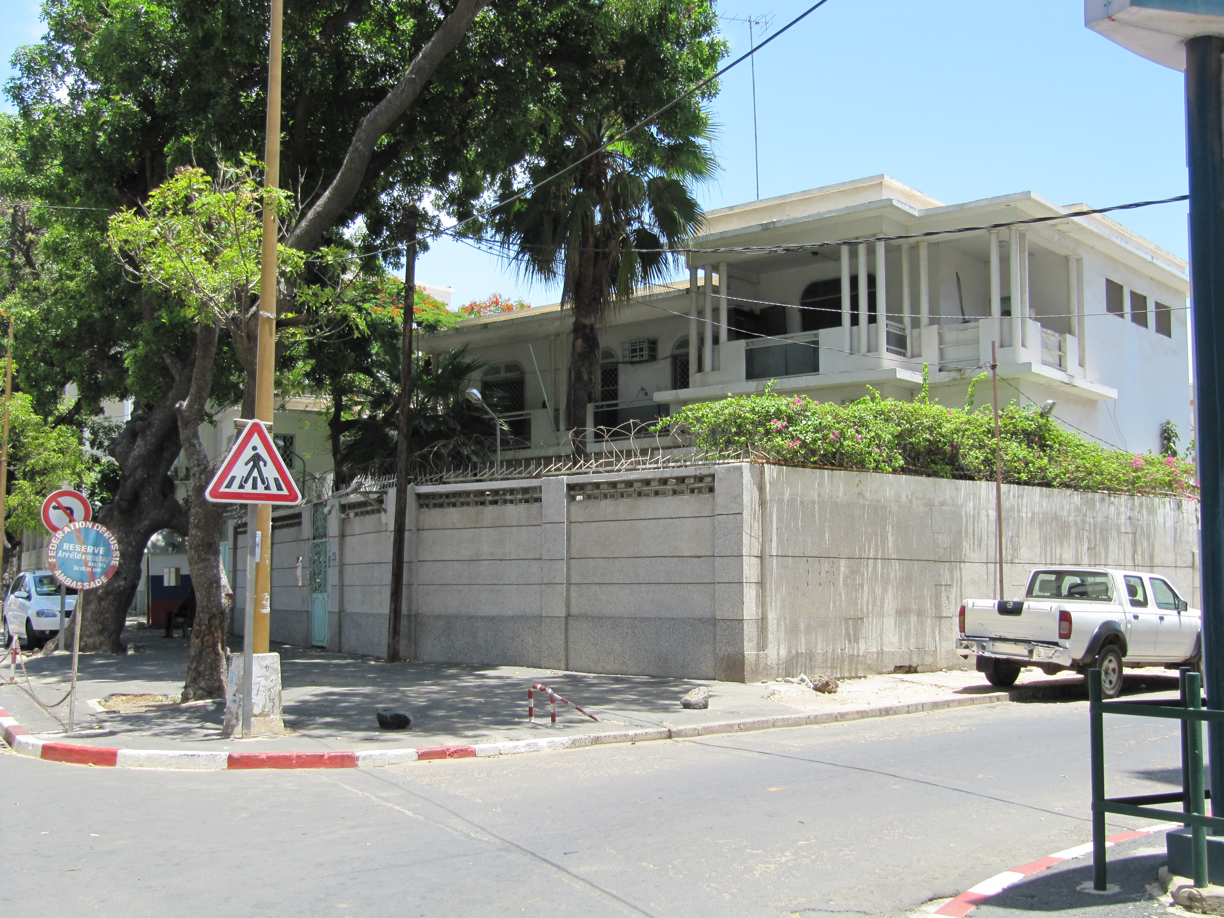 Russian consulate in Dakar, Senegal